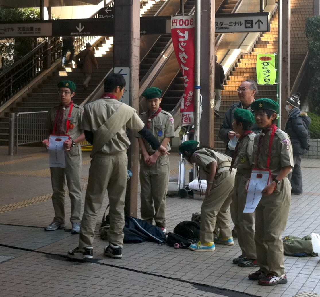 Scout troop in Funabashi, Japan calling for donations after the Tōhoku earthquake/tsunami of 2011.